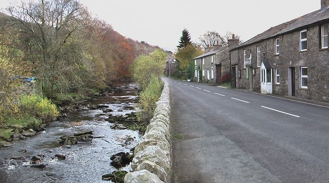 Garsdale Original description: Garsdale Street Chapel The building with the sign outside.